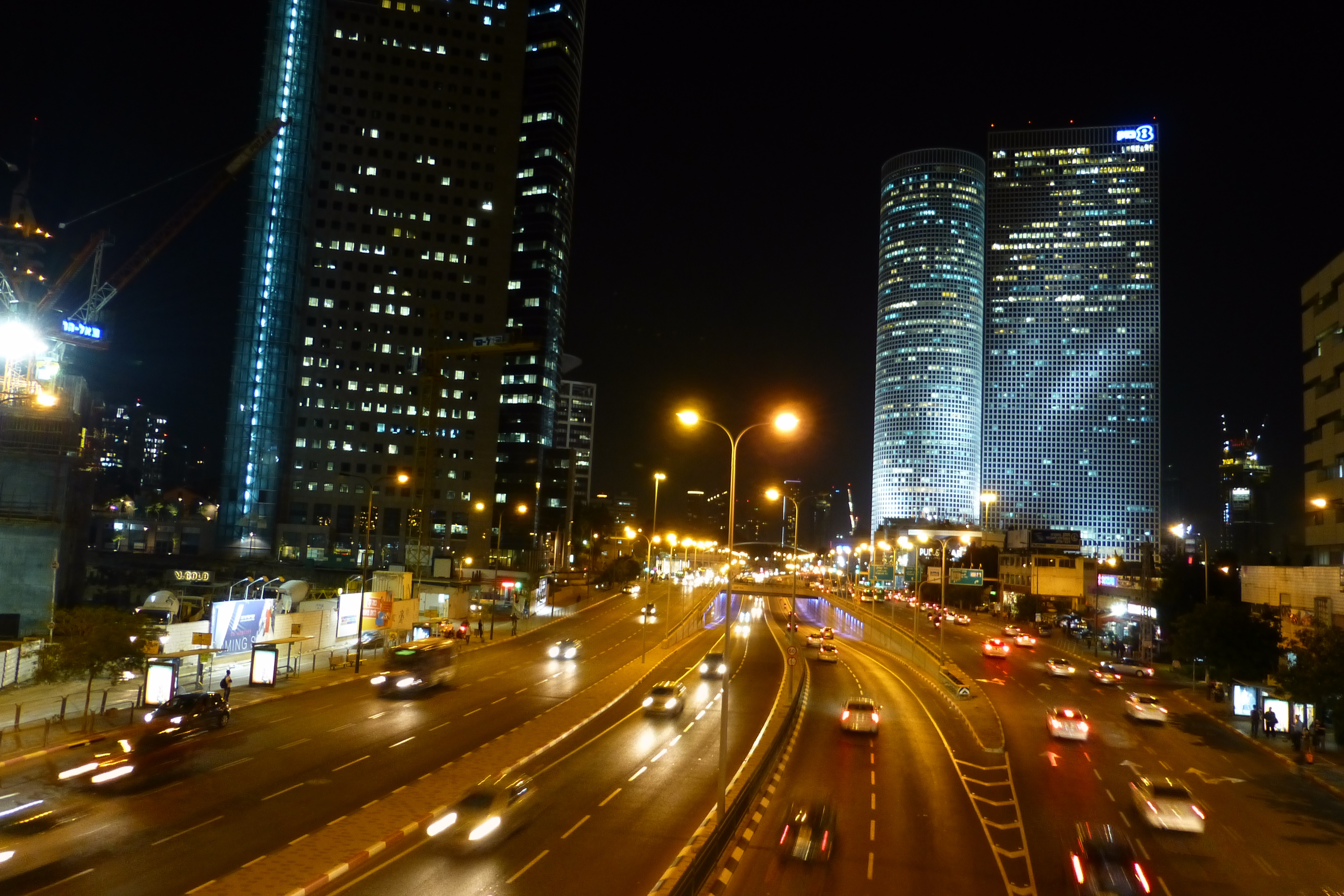 A2 (Israel)